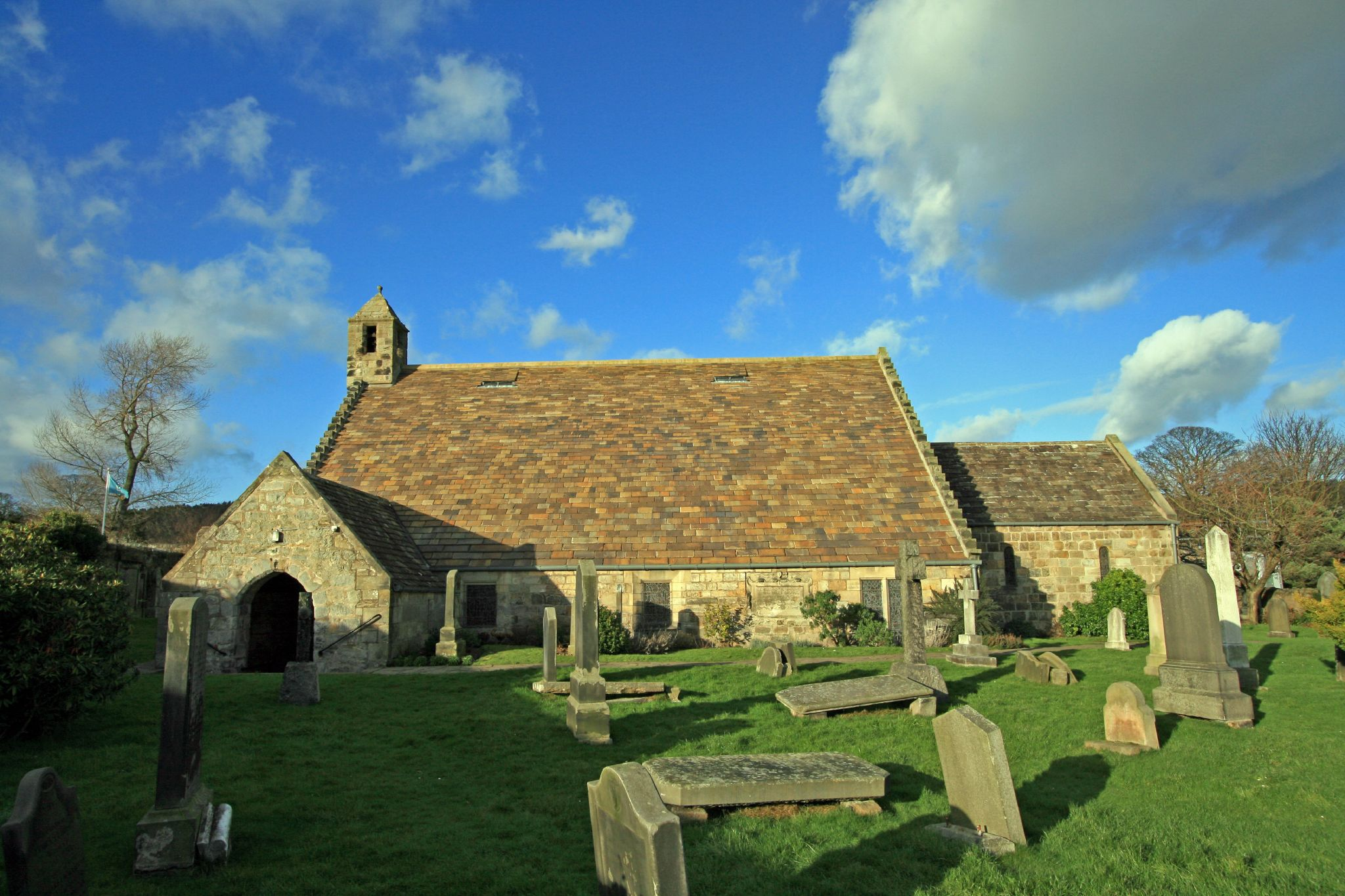 St Fillans Church, Aberdour, Scotland.